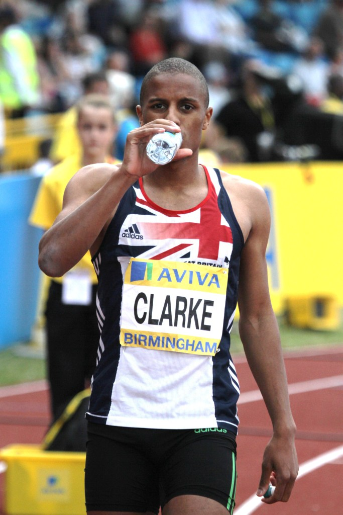 Sesotho: Christopher Clarke